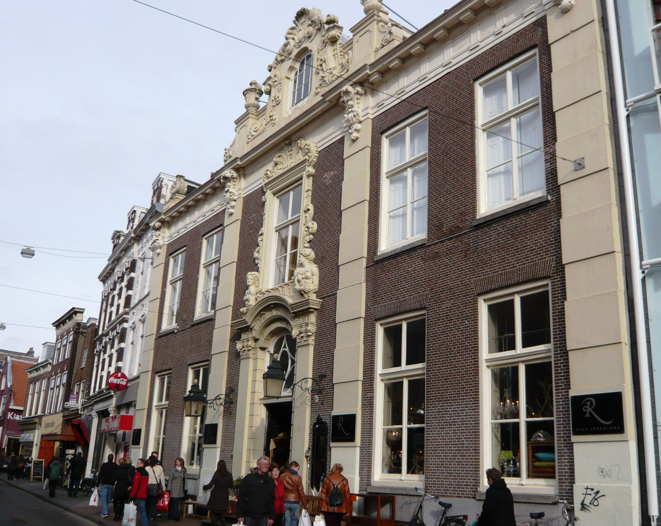 The House with the mermaids, Kruisstraat, Haarlem. Former home of David van Lennep.